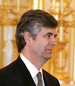 Stanislas Lefebvre de Laboulaye.